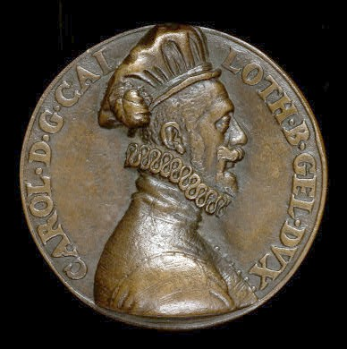 Charles II, Duke of Lorraine (1390-1431), reverse